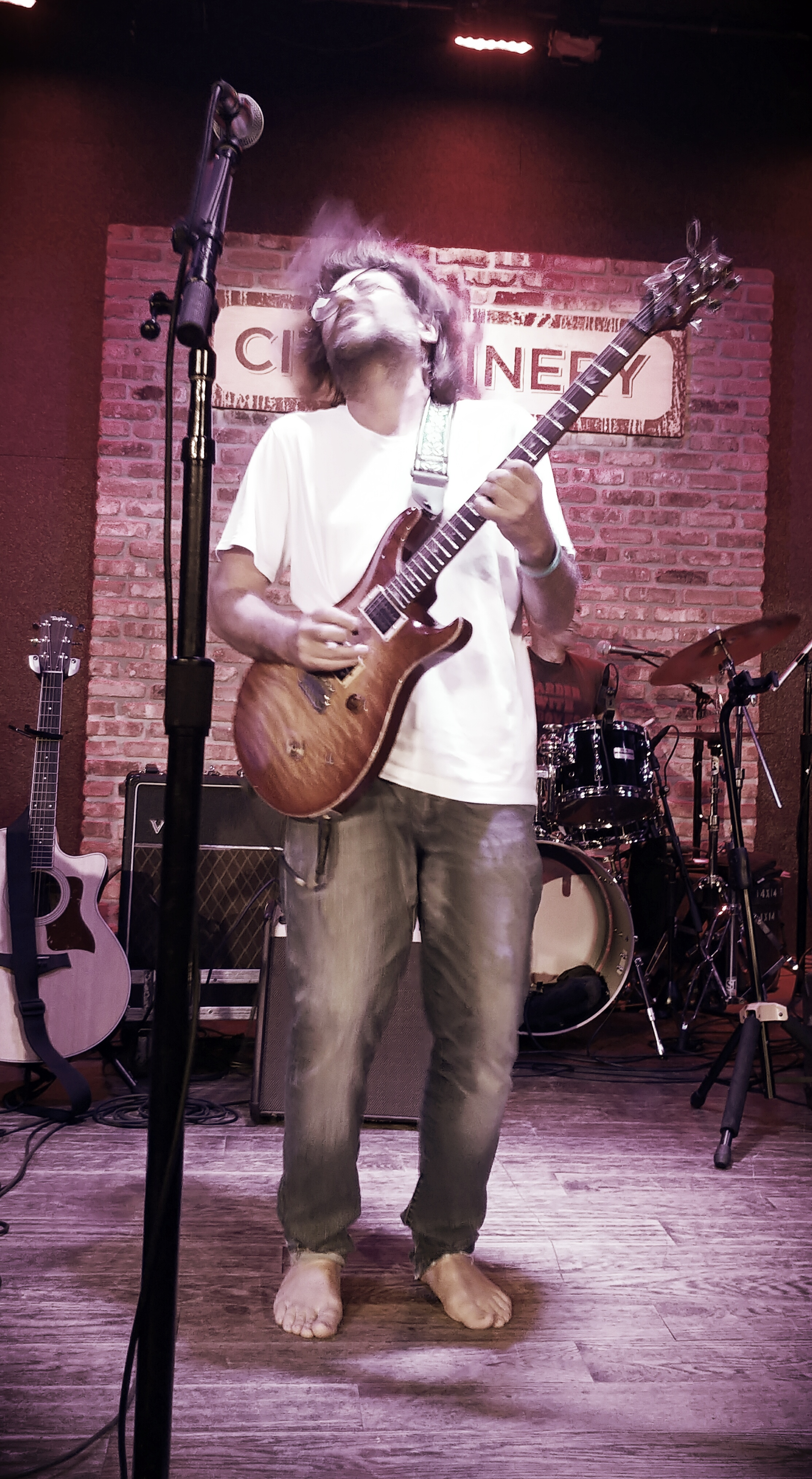 A photo of Lo Faber onstage with God Street Wine at City Winery Chicago July 29, 2018